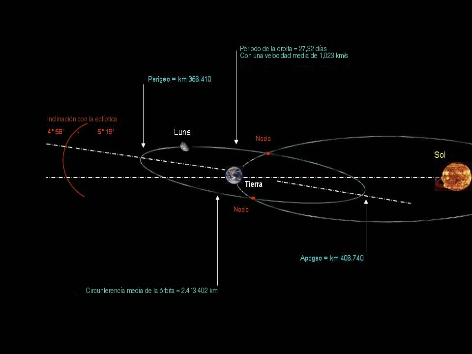 Orbit and data of the Moon.